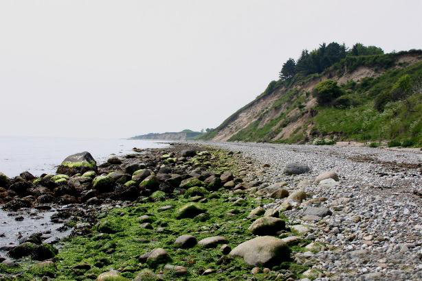 Cliff at the coast of the Kattegat south of Grenå